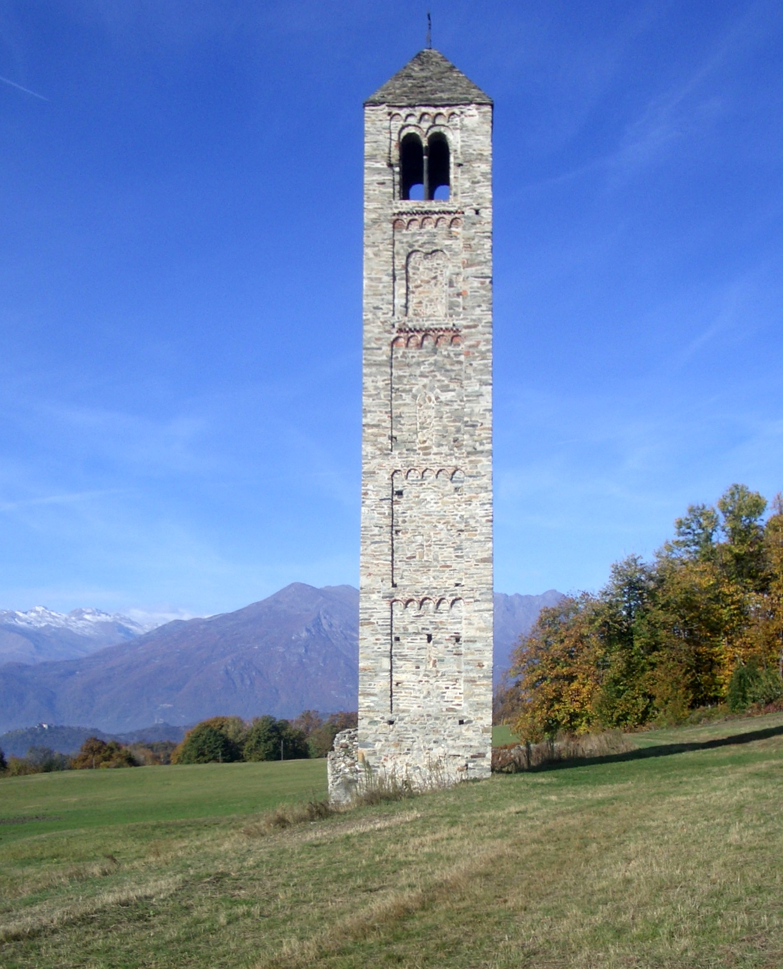 Romanesque clock tower (populary called “ciocaron”), Fraz. Perno, Bollengo, , Turin, Italy